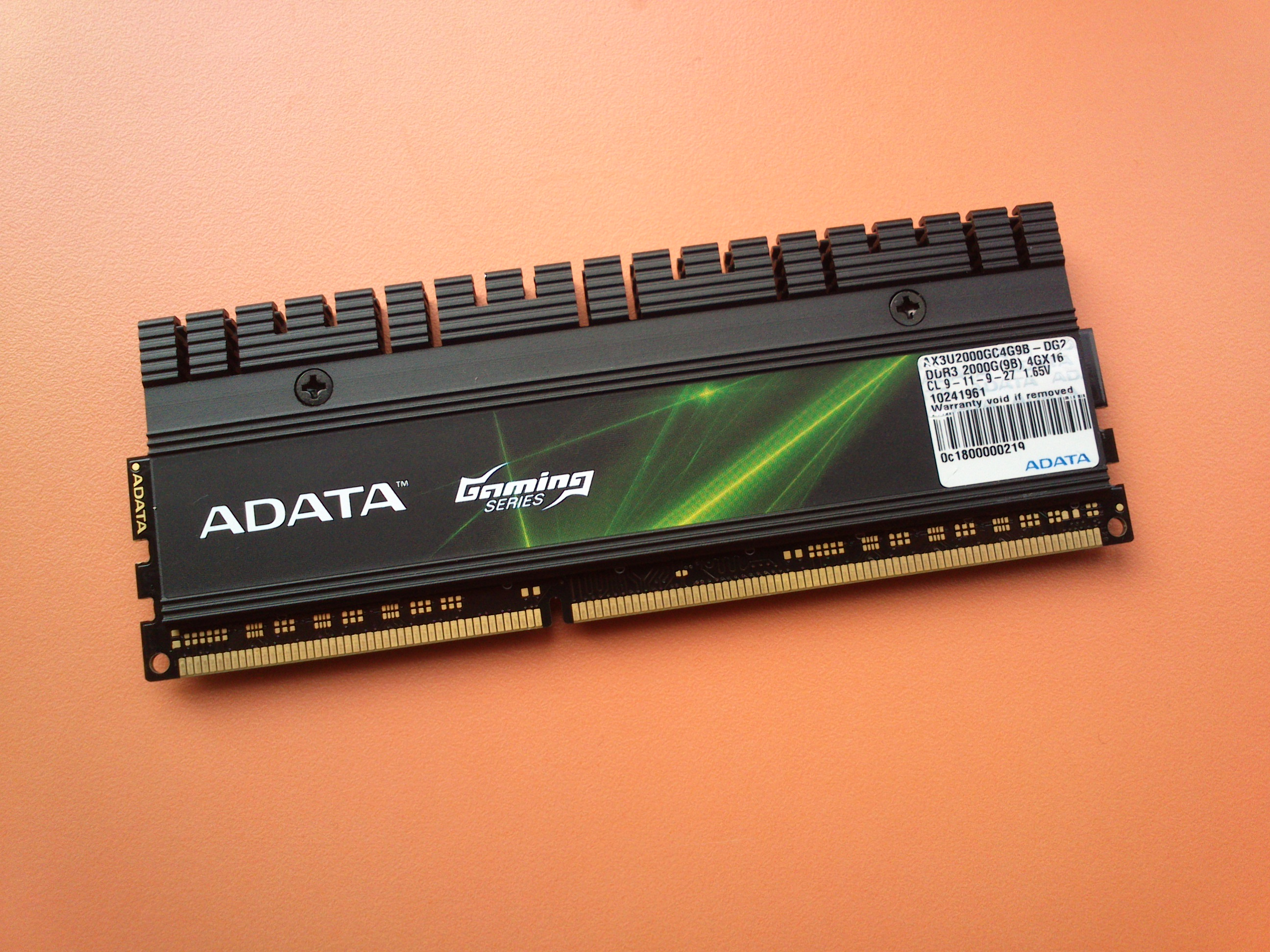 ADATA DDR3 RAM module "AX3U2000GC4G9B-DG2"